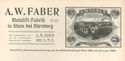 Letterhead of the company A.W. Faber about 1900